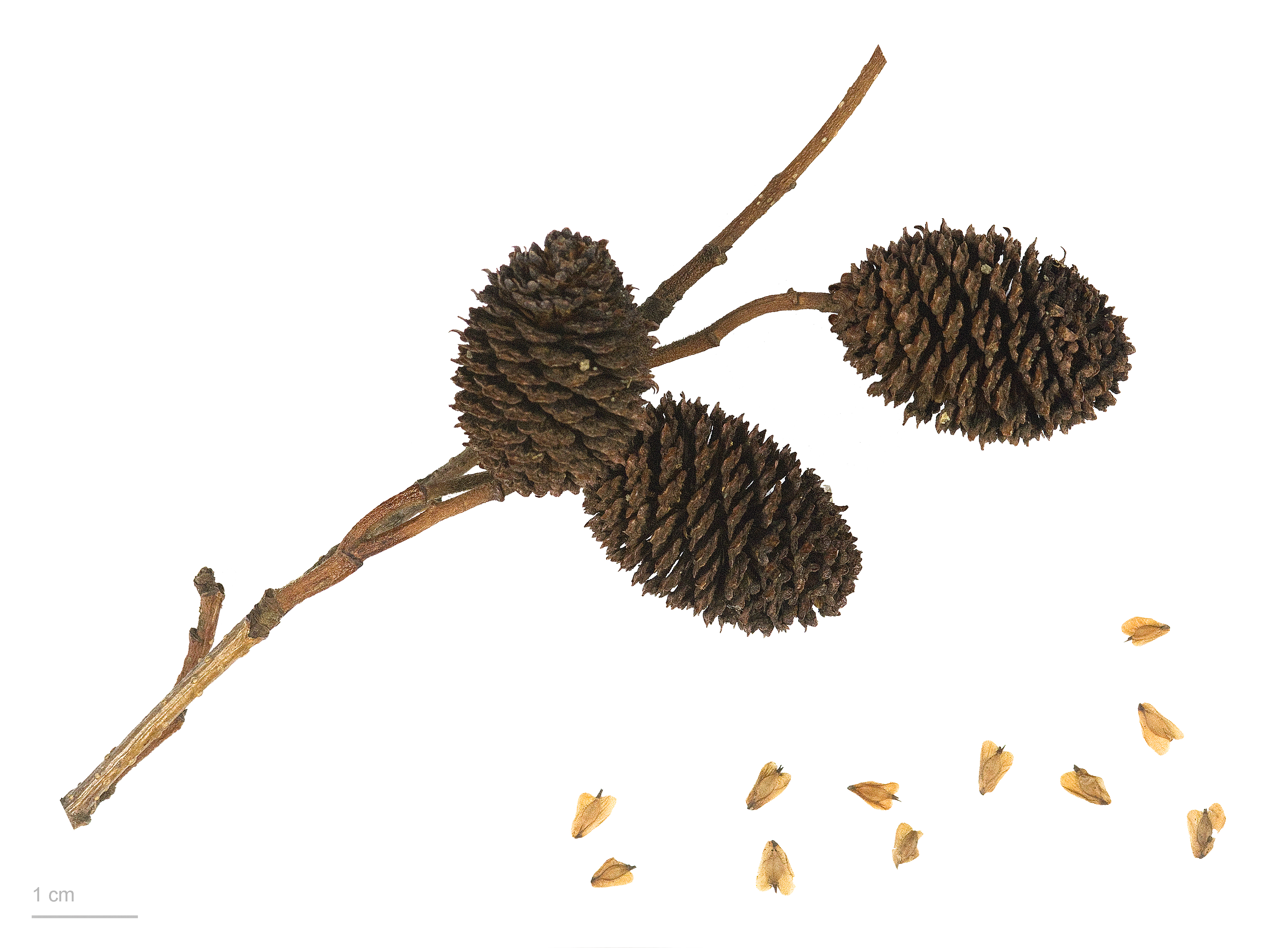 Alnus sieboldiana, fruits and seeds